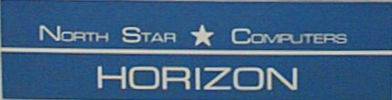 The blue and white placard which appears on the front of a NorthStar Horizon vintage computer, circa 1977.